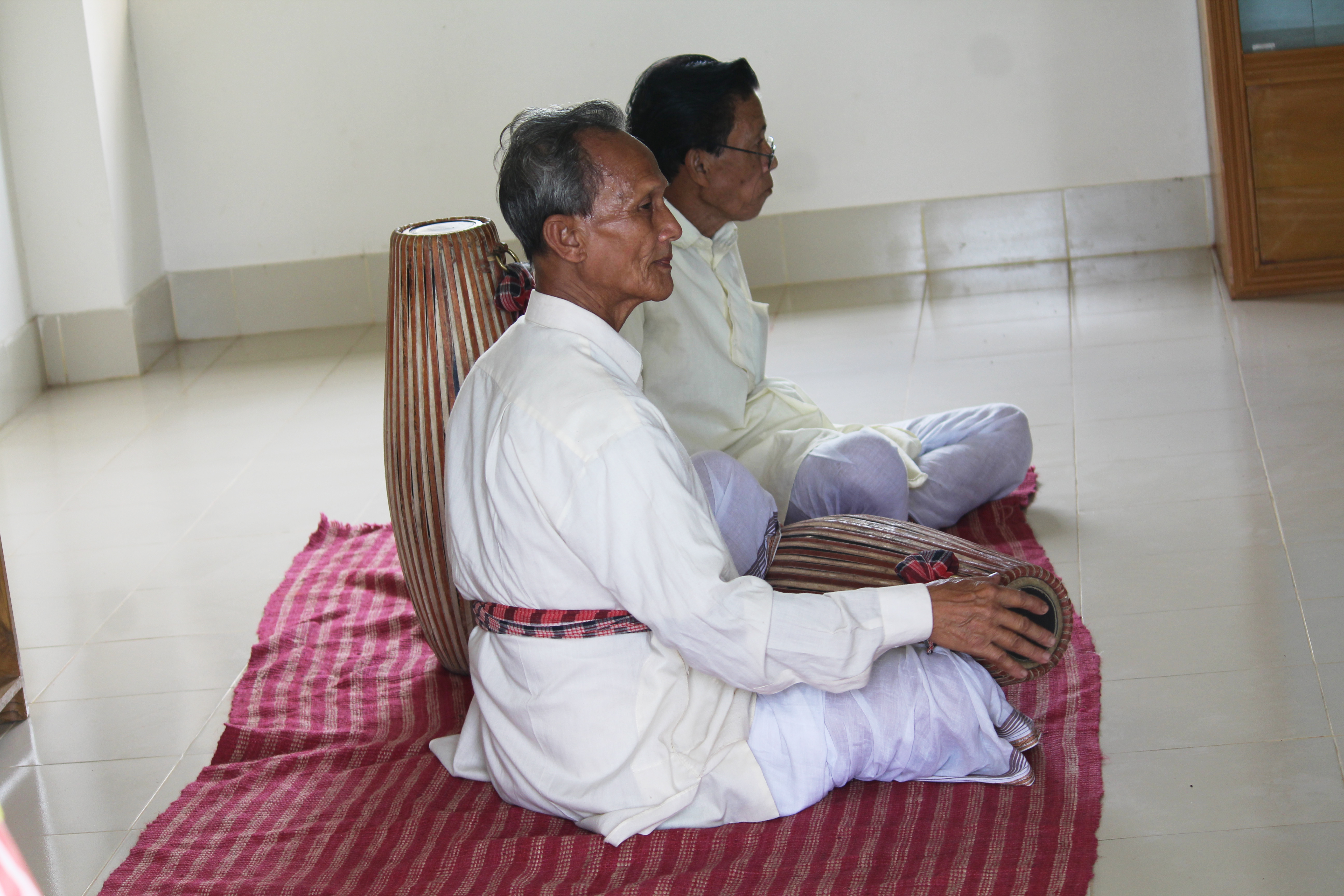 মণিপুরী বাদ্যযন্ত্র শিক্ষক